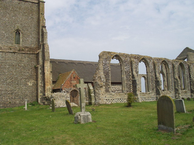 St Andrews Church, Covehithe. Original church and a smaller one built inside